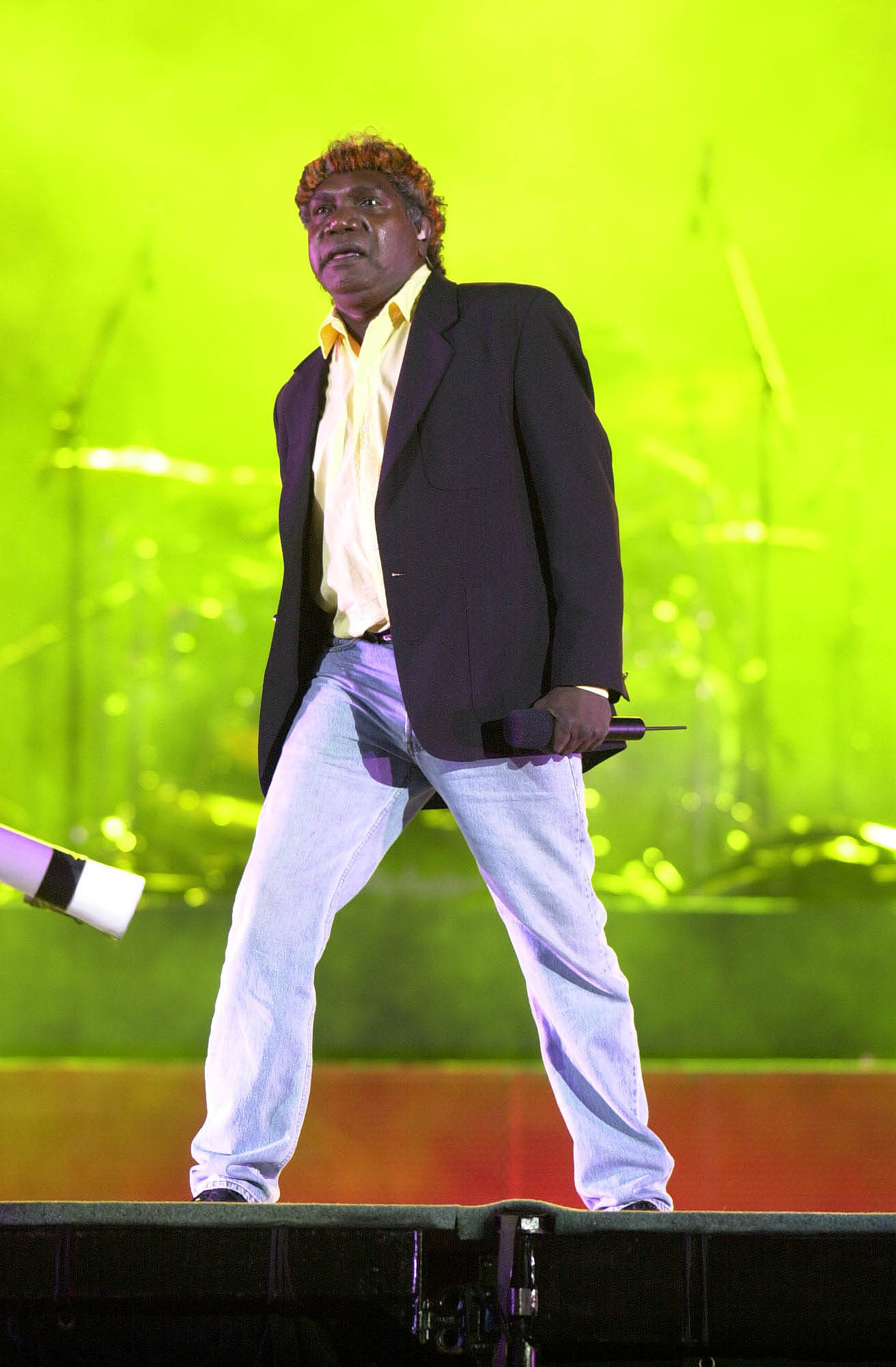 Australian aboriginal singer Mandawuy Yunupingu performs with the band Yothu Yindi onstage at the Sydney Paralympic Games Opening Ceremony